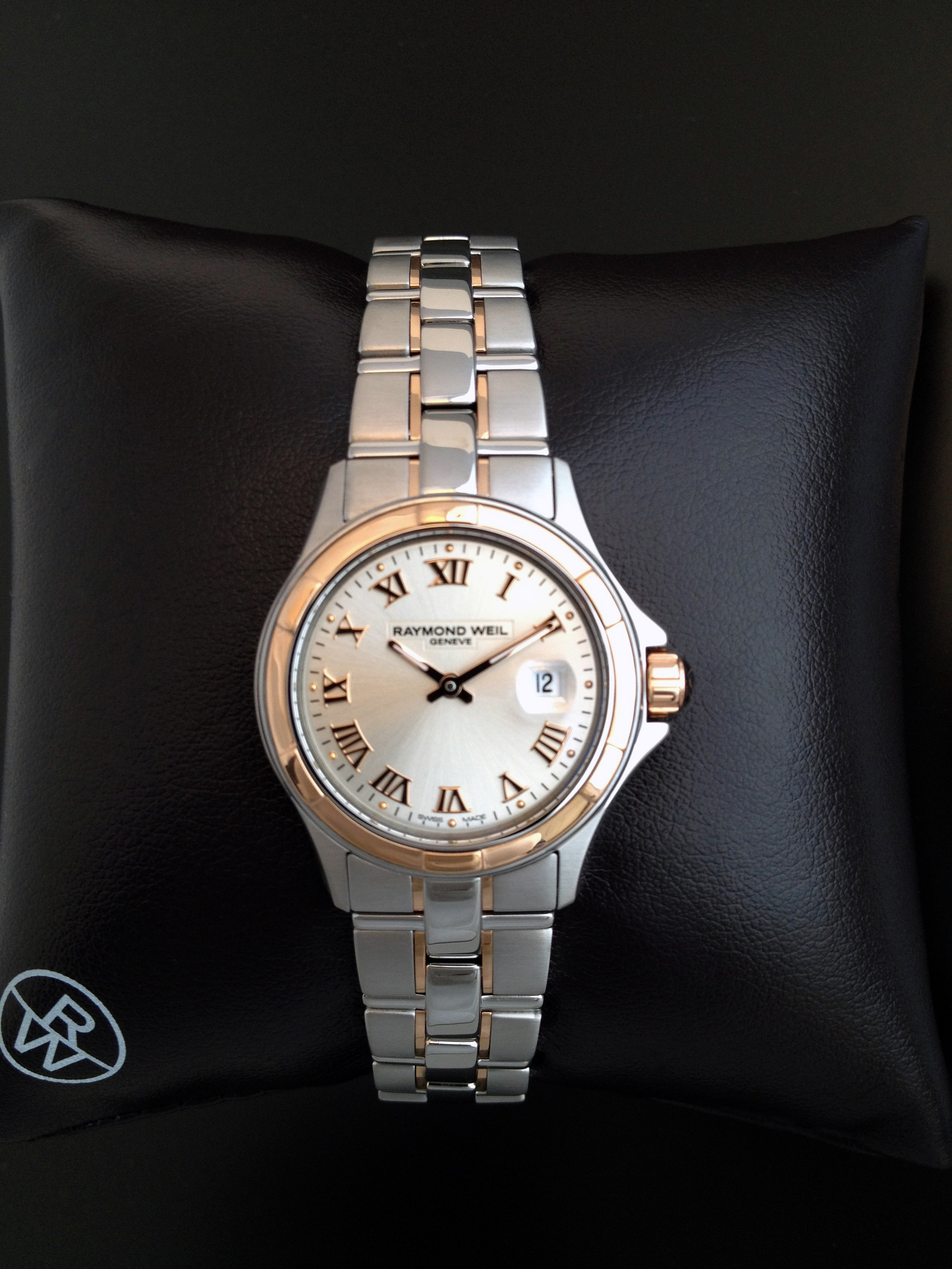 Parsifal 9460-sg5-00658 - Two-tone - Silver dial